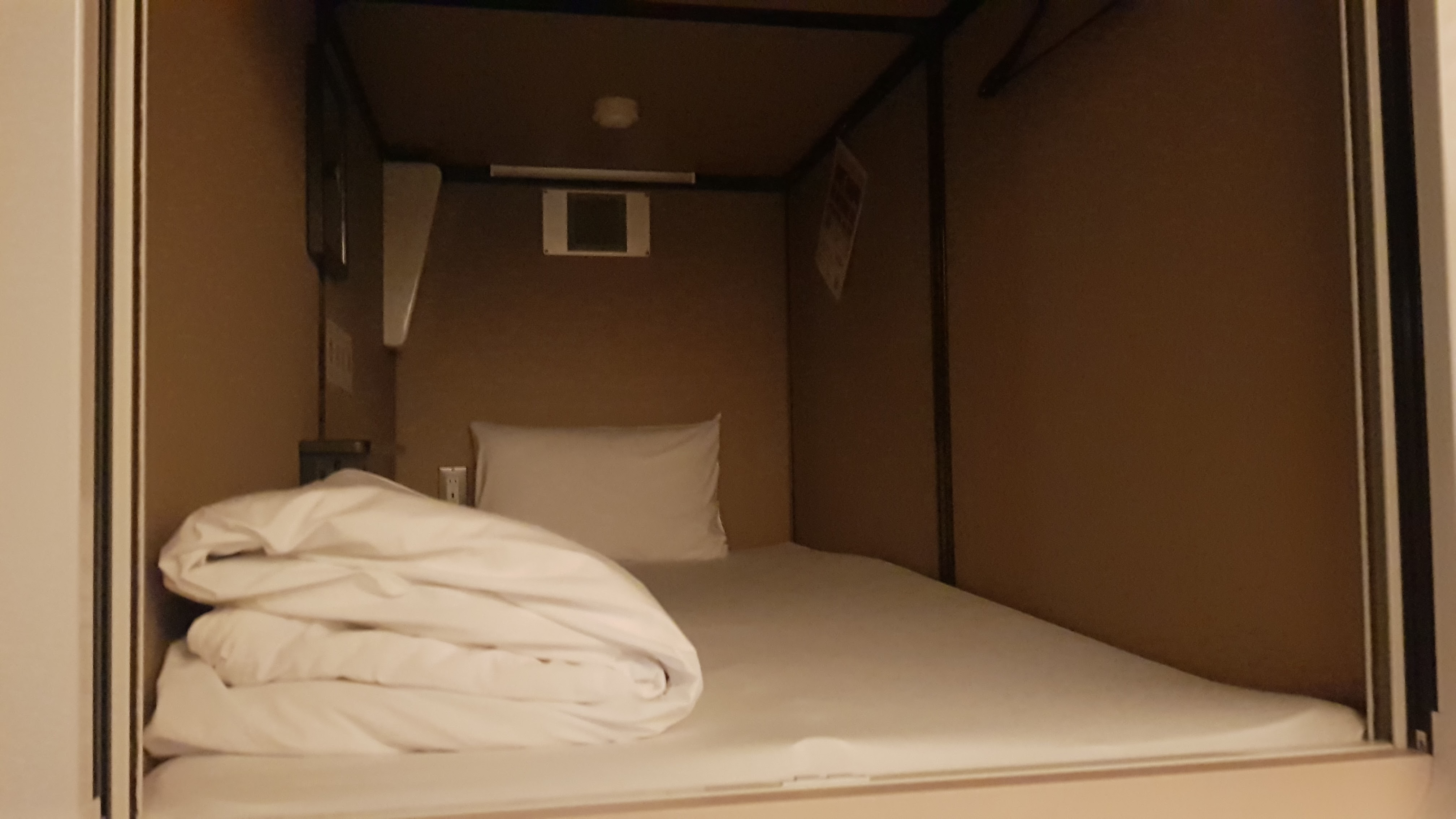 Interior of capsule in Tokyo